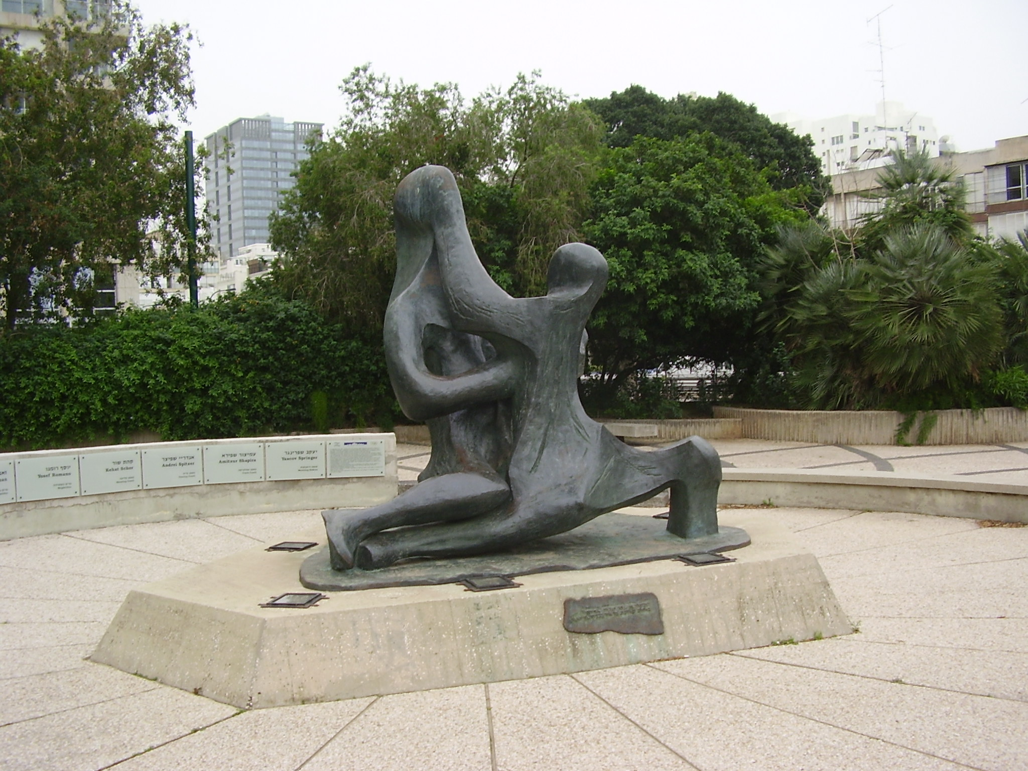 munich massacre memorial in tel aviv אנדרטה בתל אביב לזכר 11 הספורטאים שנרצחו באולימפיאדת מינכן.הפסל הוא של אלי אילן (1973) ונקרא "מלחמת בני אור בבני חושך".